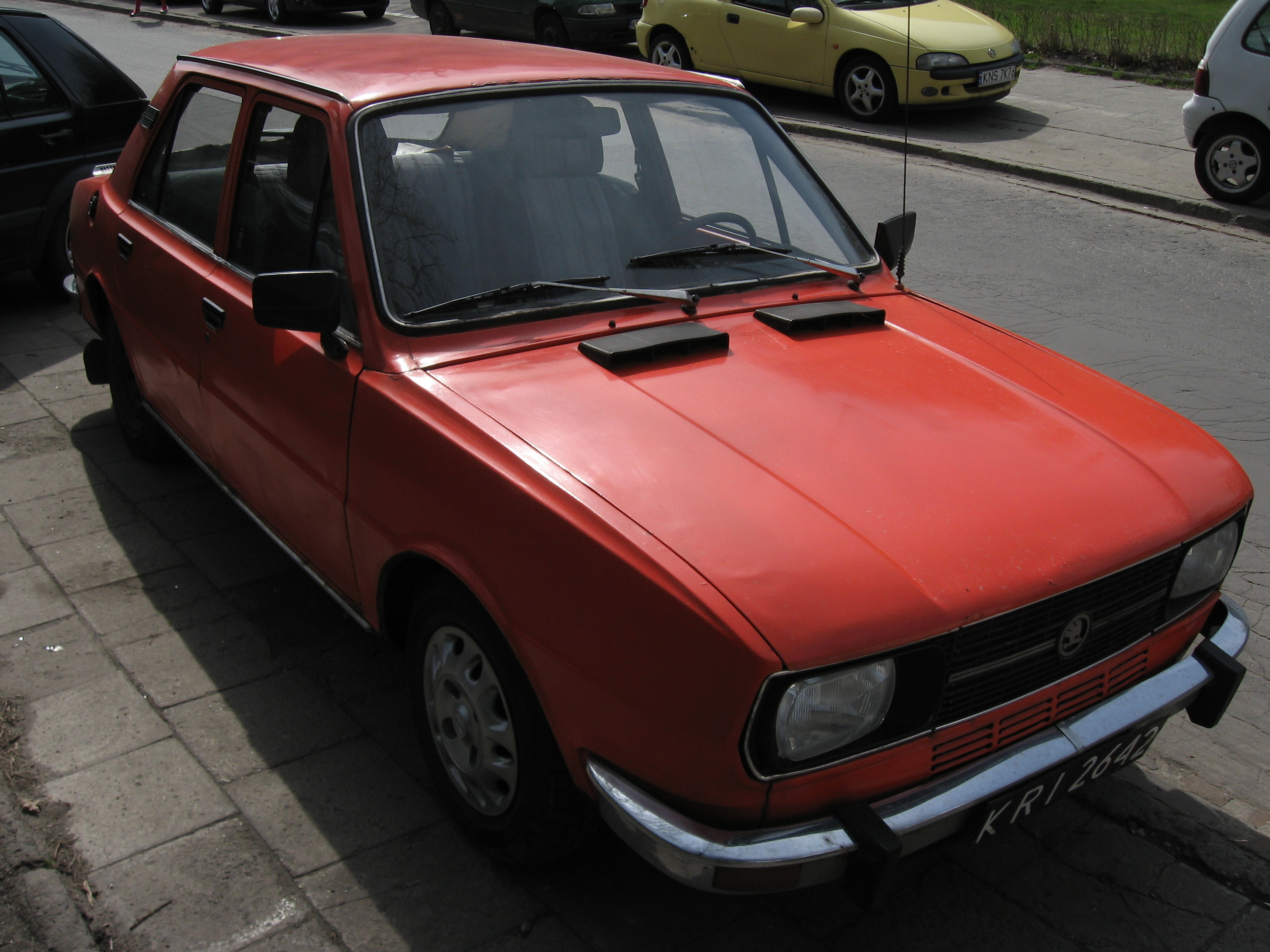 Škoda 105 L produced between 1982 and 1983 on Oleandry street in Kraków.